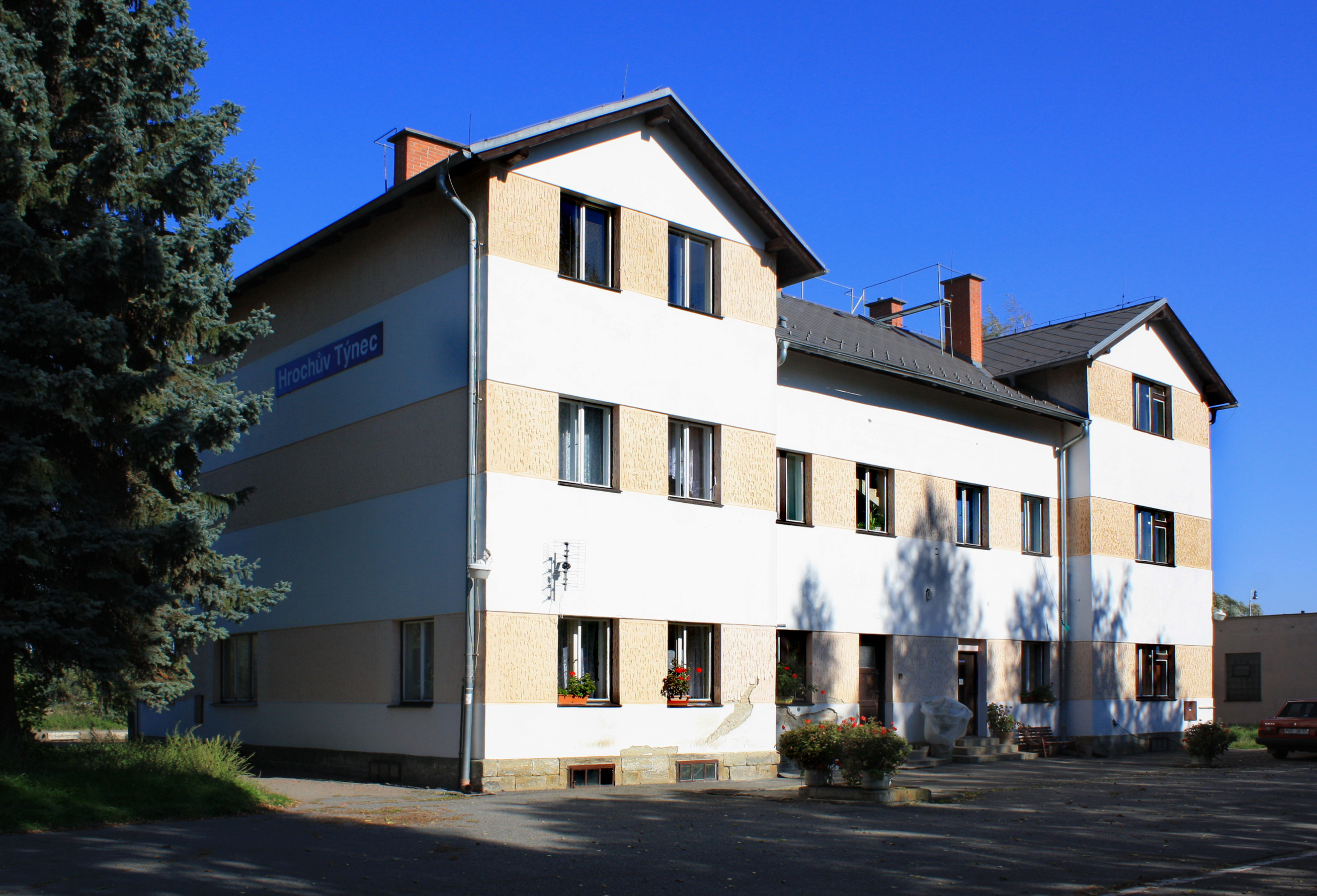 Train station in Hrochův Týnec, Czech Republic